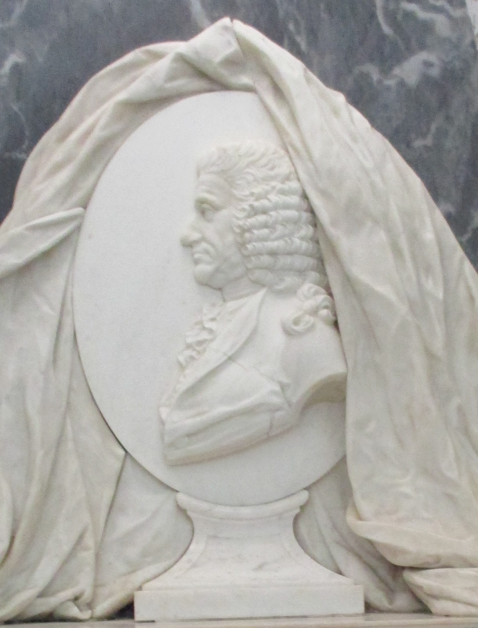 Detail of monument to Sir Merrik Burrell, 1st Bt., in St George's Church, West Grinstead, West Sussex. It was sculpted by Nathaniel Smith.